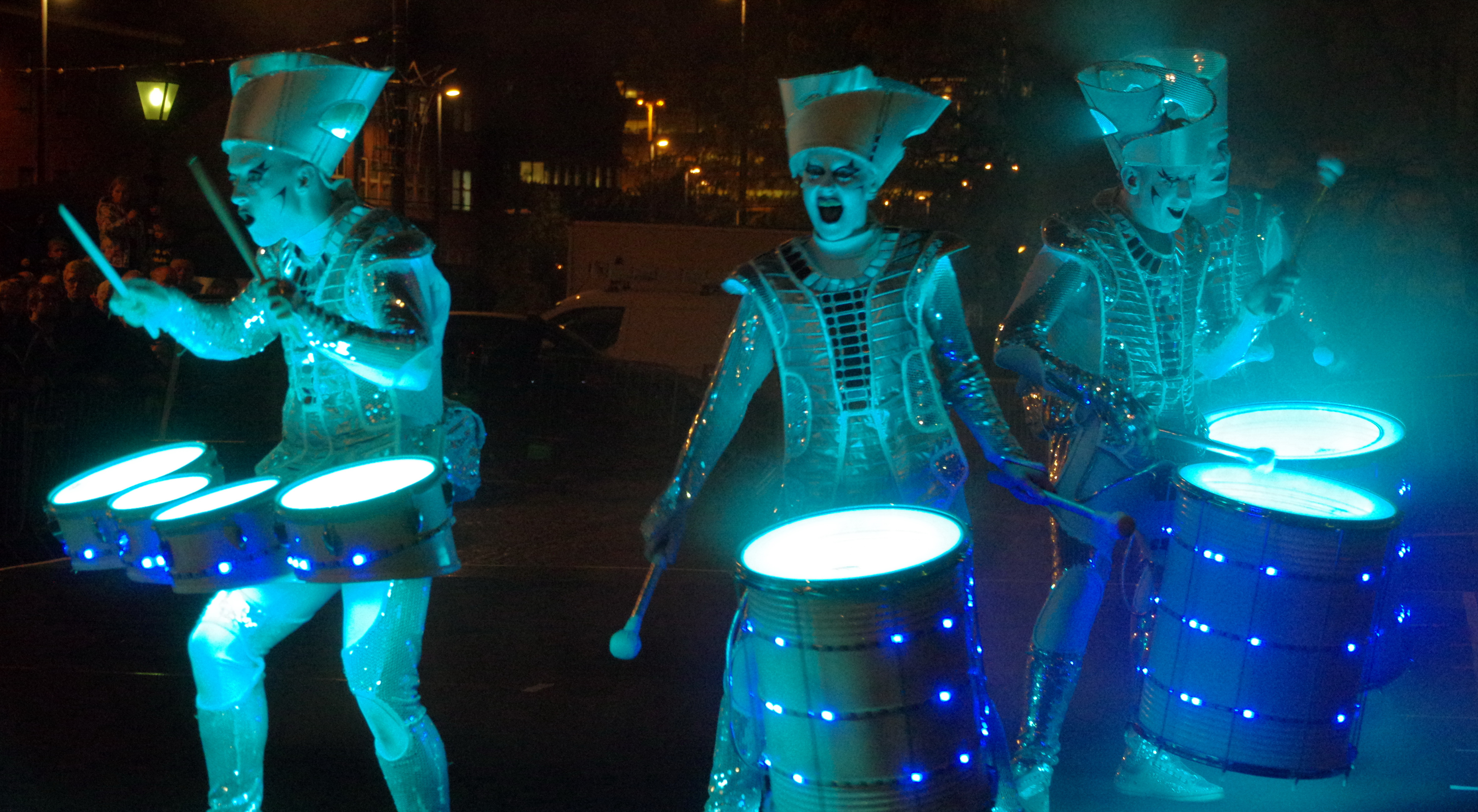 7.10.16 Light Night Leeds